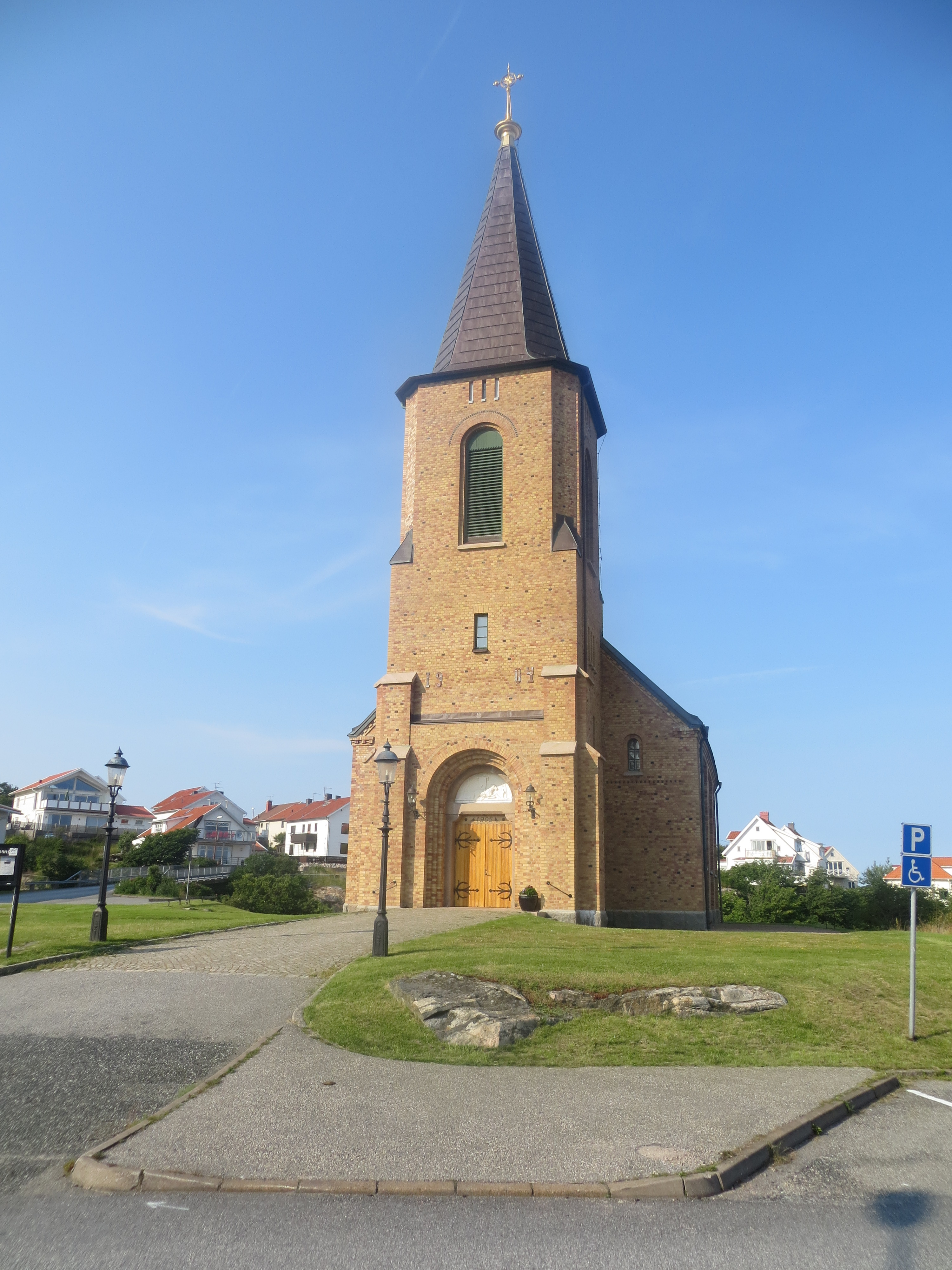 Smögens kyrka i Smögen, Sotenäs kommun (Bohuslän)